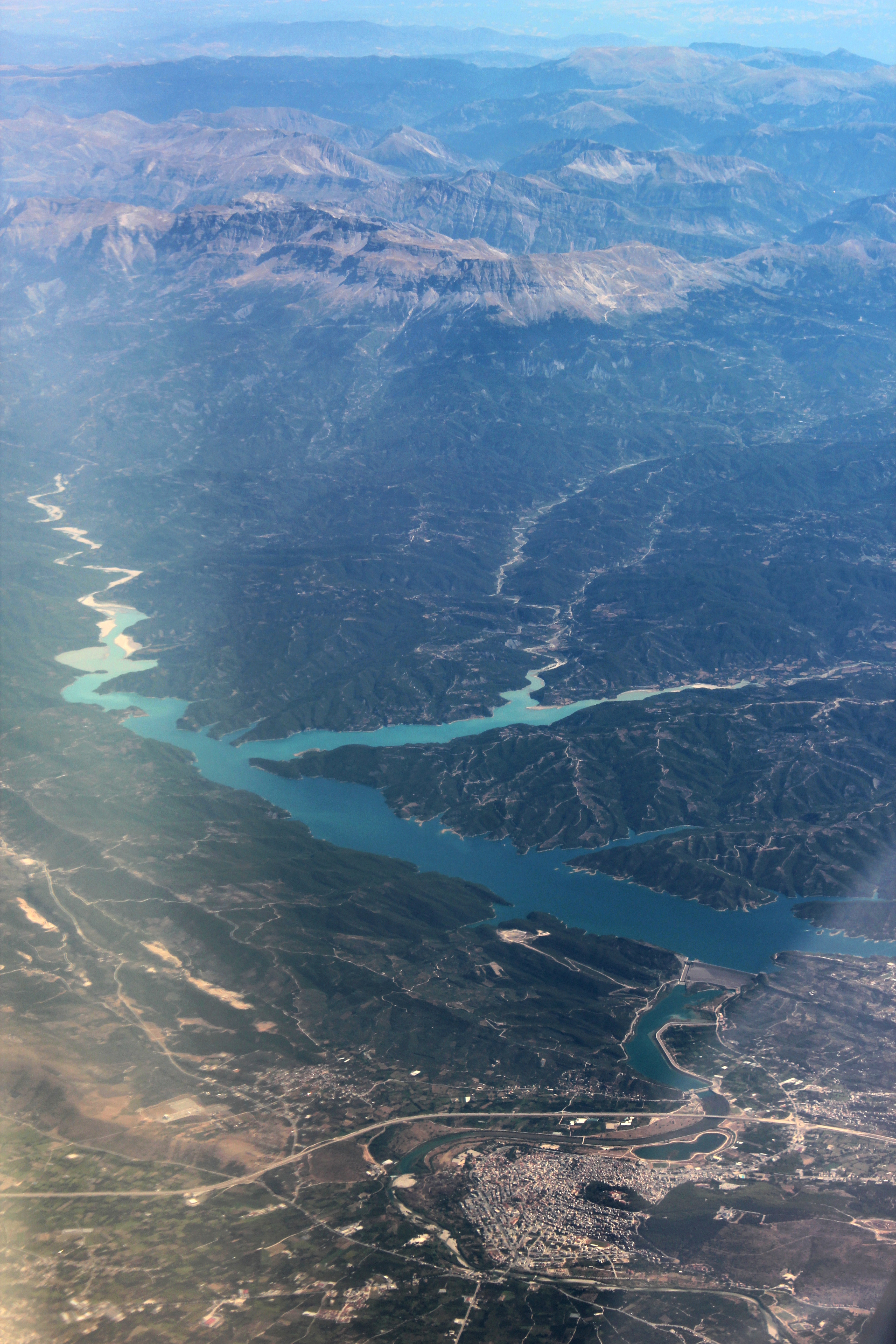 Arta and the Reservoir on the Arachthos. Seen at 11000 meters on en flight between Zakynthos and Brussels.